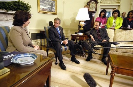 Alsammarae with President Bush